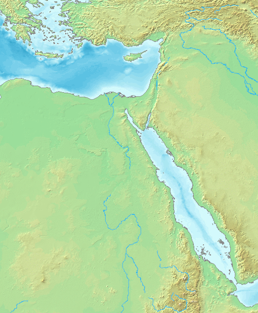 Nile River non political